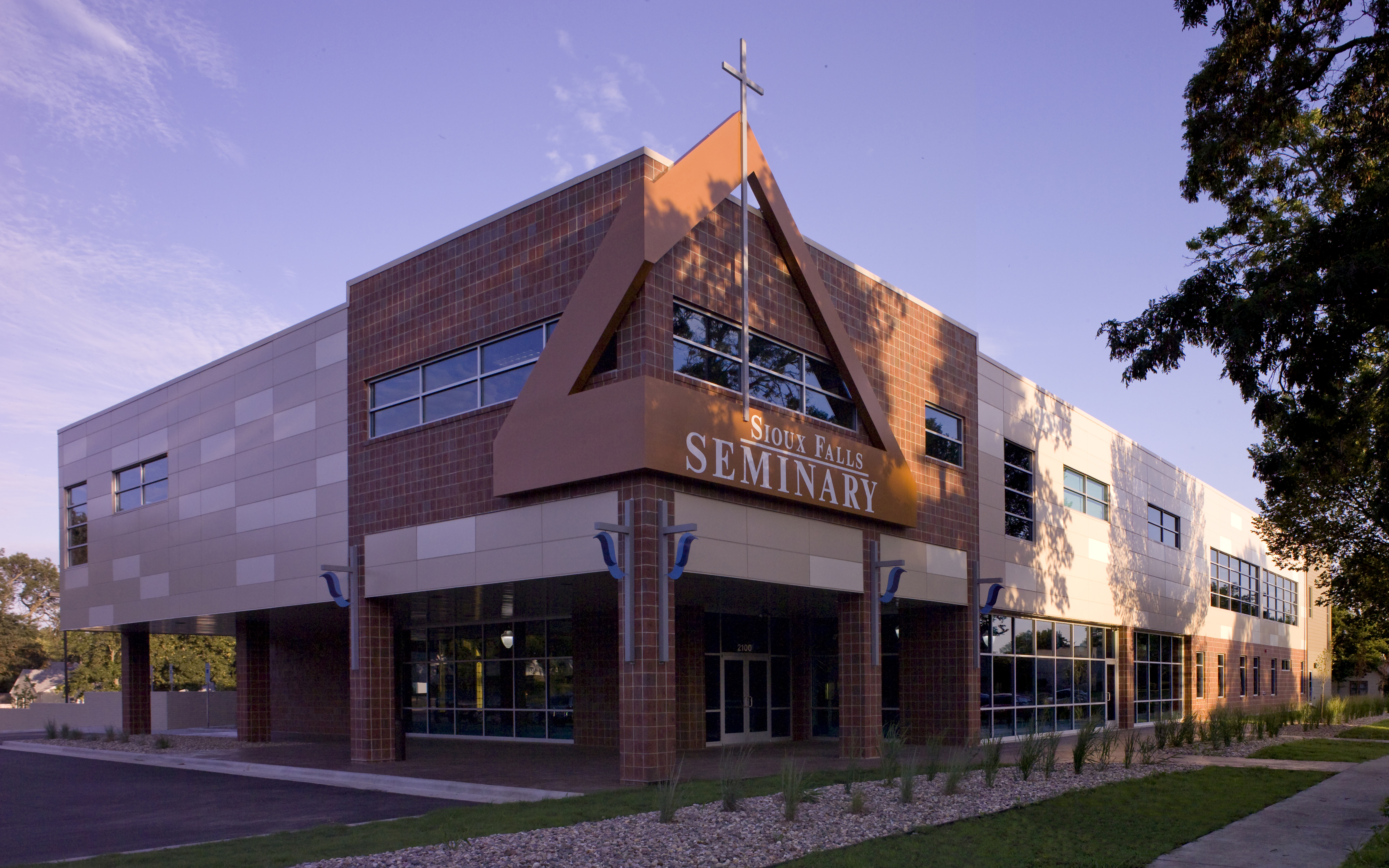 A view of Sioux Falls Seminary's campus on Summit Avenue in Sioux Falls, South Dakota.